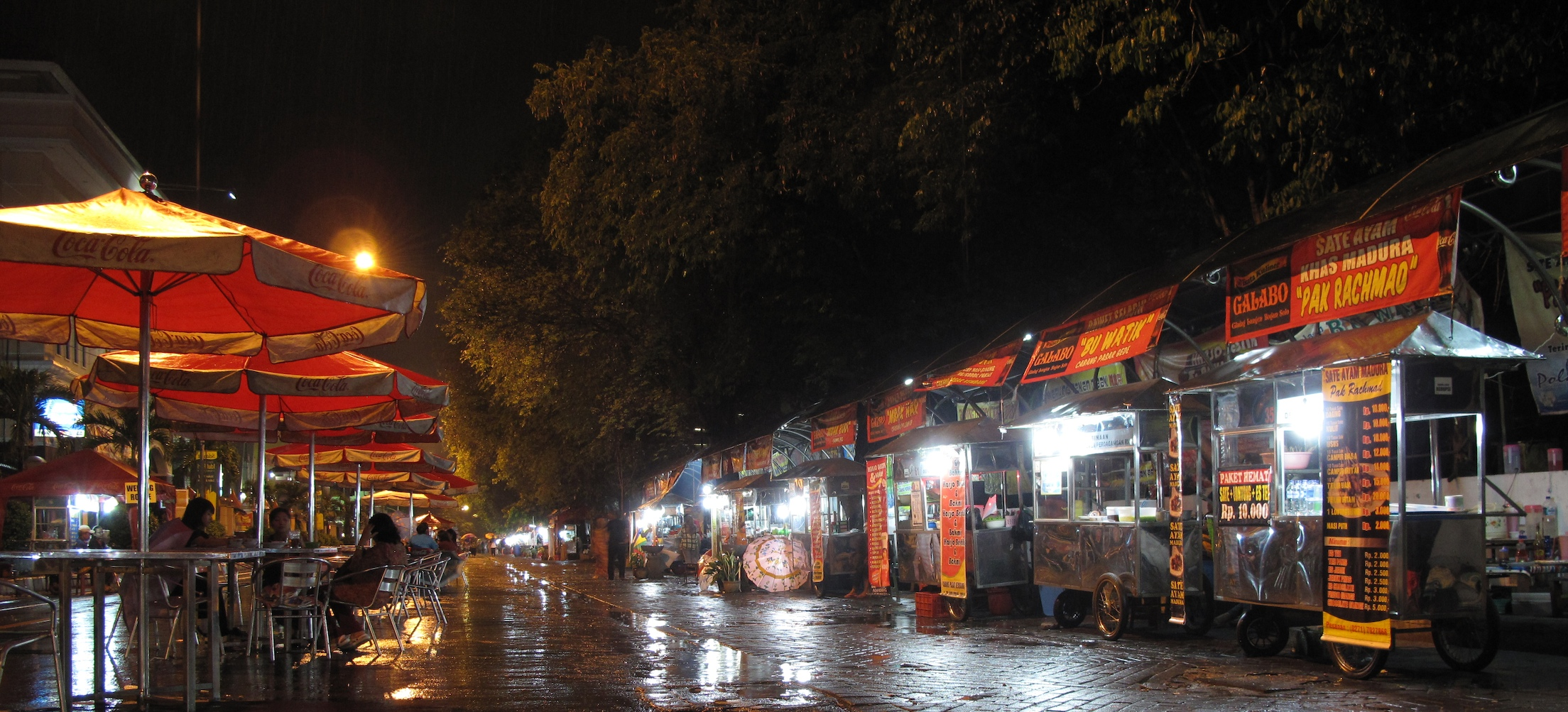 Street of food vendors in Solo, Indonesia. Seven of us huddled around a table under a beach umbrella at night. Orders are placed at the food vendor and they bring it to you at your table. Sop Buntut Sapi was good.